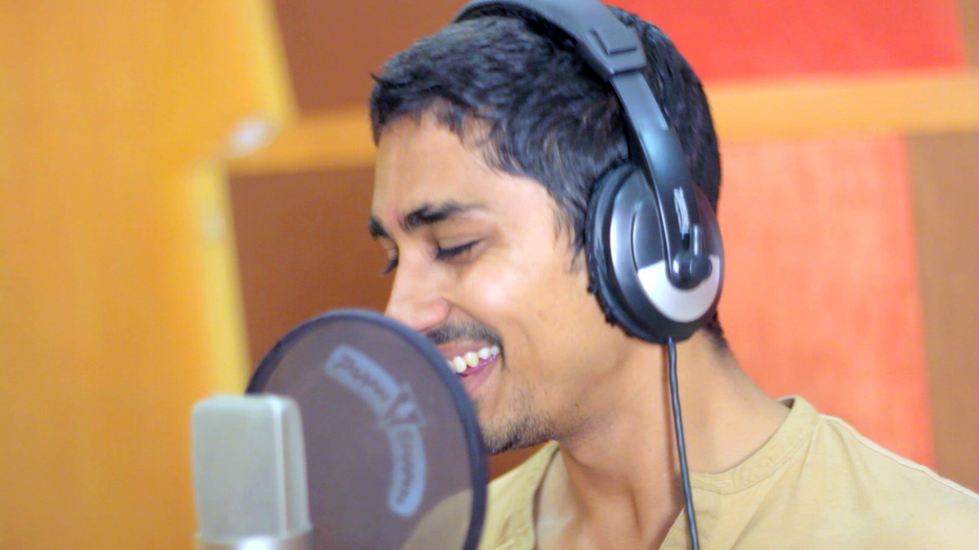 Actor Siddharth records his voice for the Tamil language version of the TeachAIDS animation at Rajiv Menon Productions in Chennai, Tamil Nadu. Photo credit: TeachAIDS